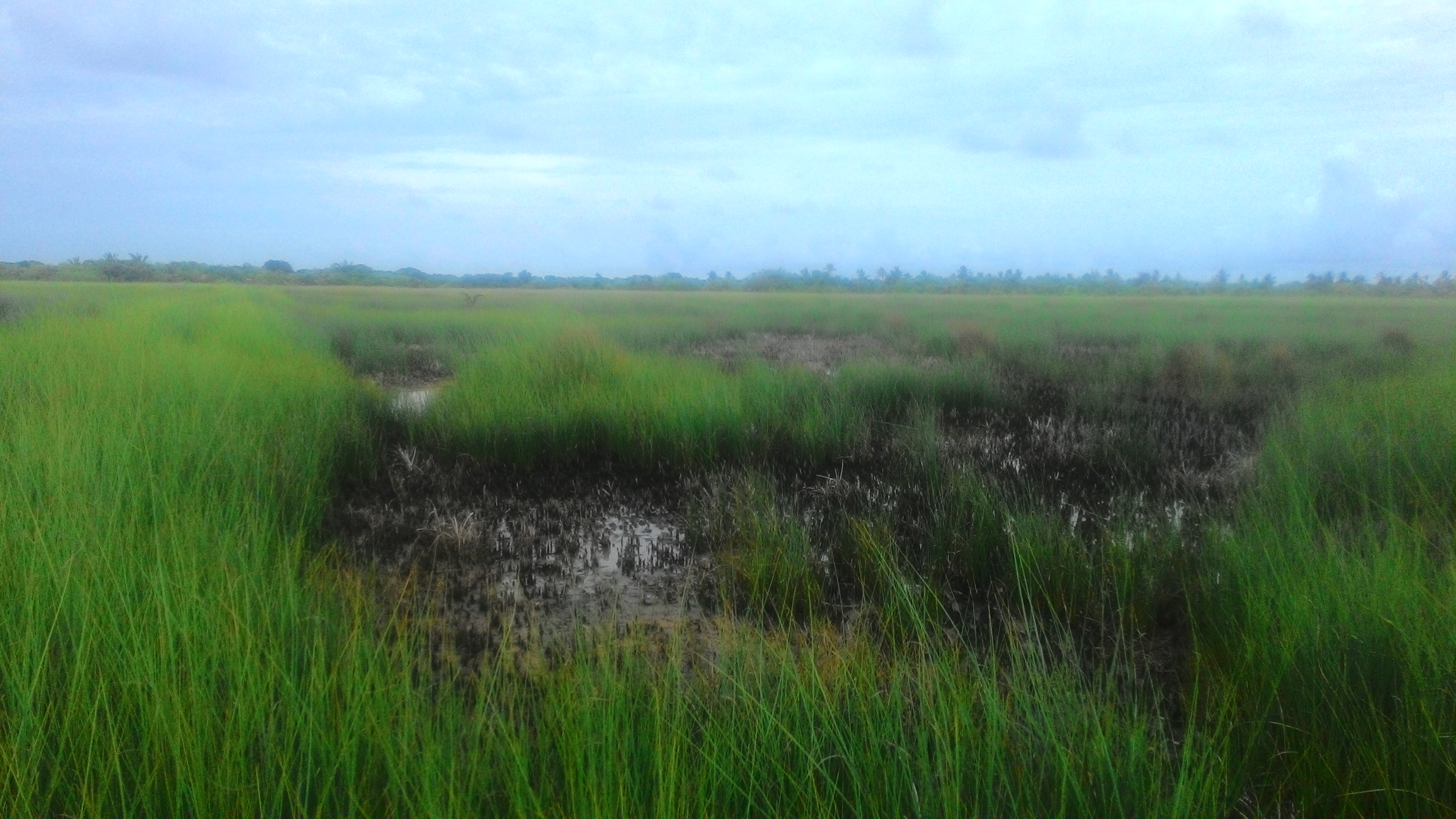 This is a picture of a large Marshy area in Hulhumeedhoo, Addu City, Republic of Maldives. The location is known in Maldives as 'Hulhumeedhoo Kilhi'.